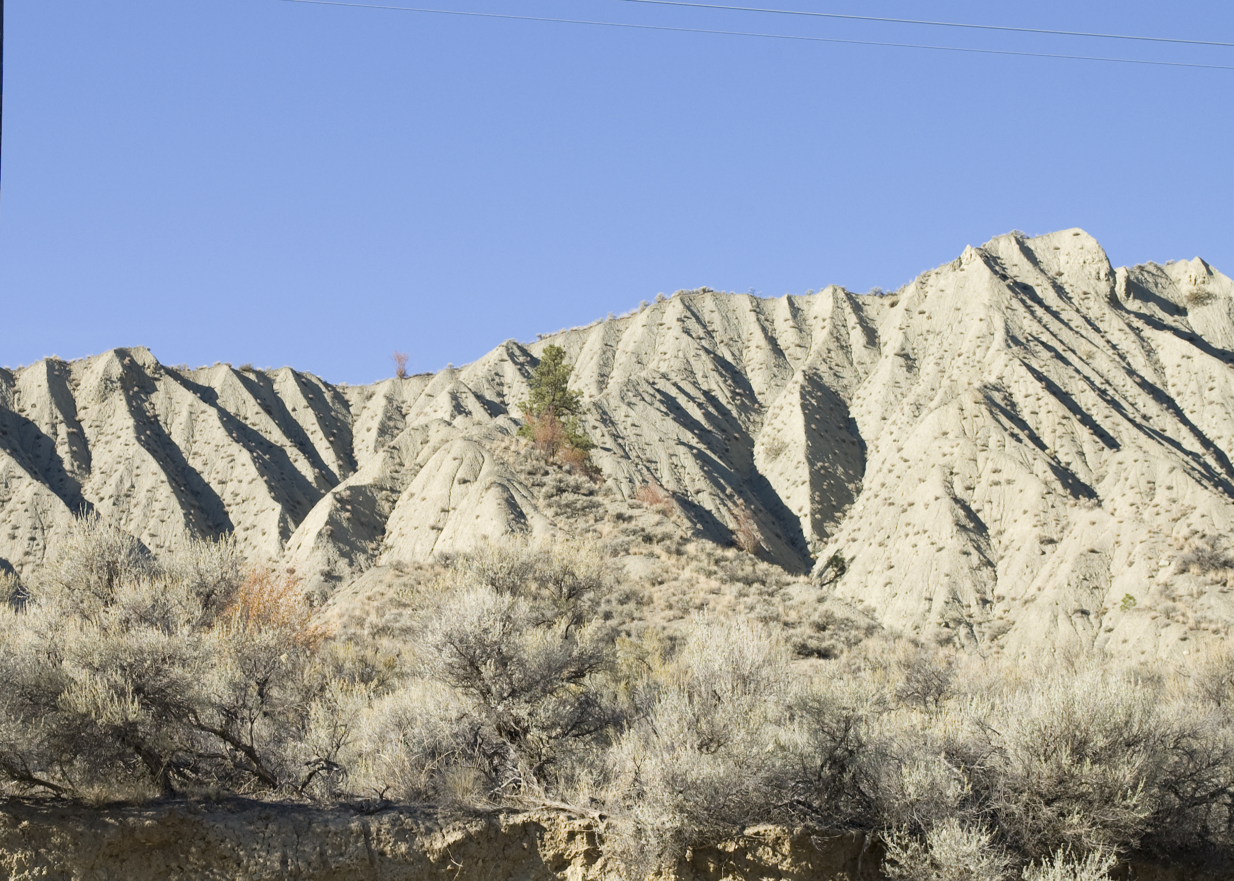 A photograph of cliffs along the Simikameen River near Nighthawk, Washington in Okanogan County, Washington.